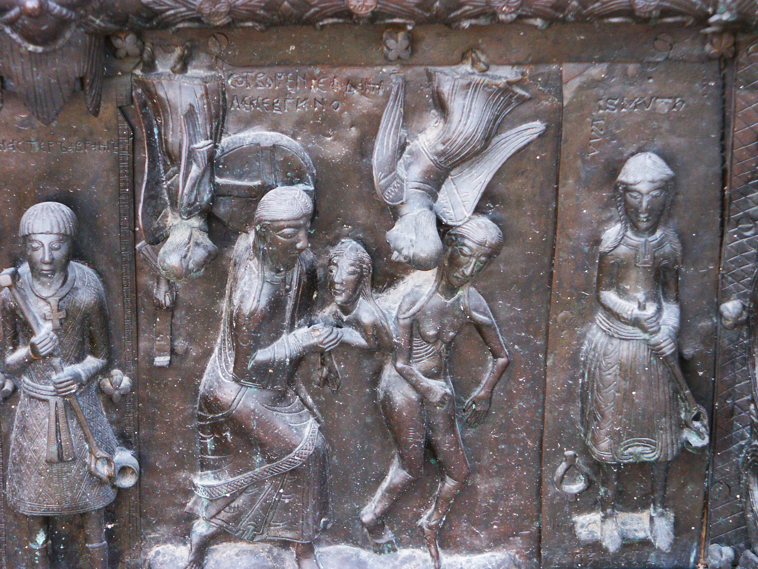 Płock Door